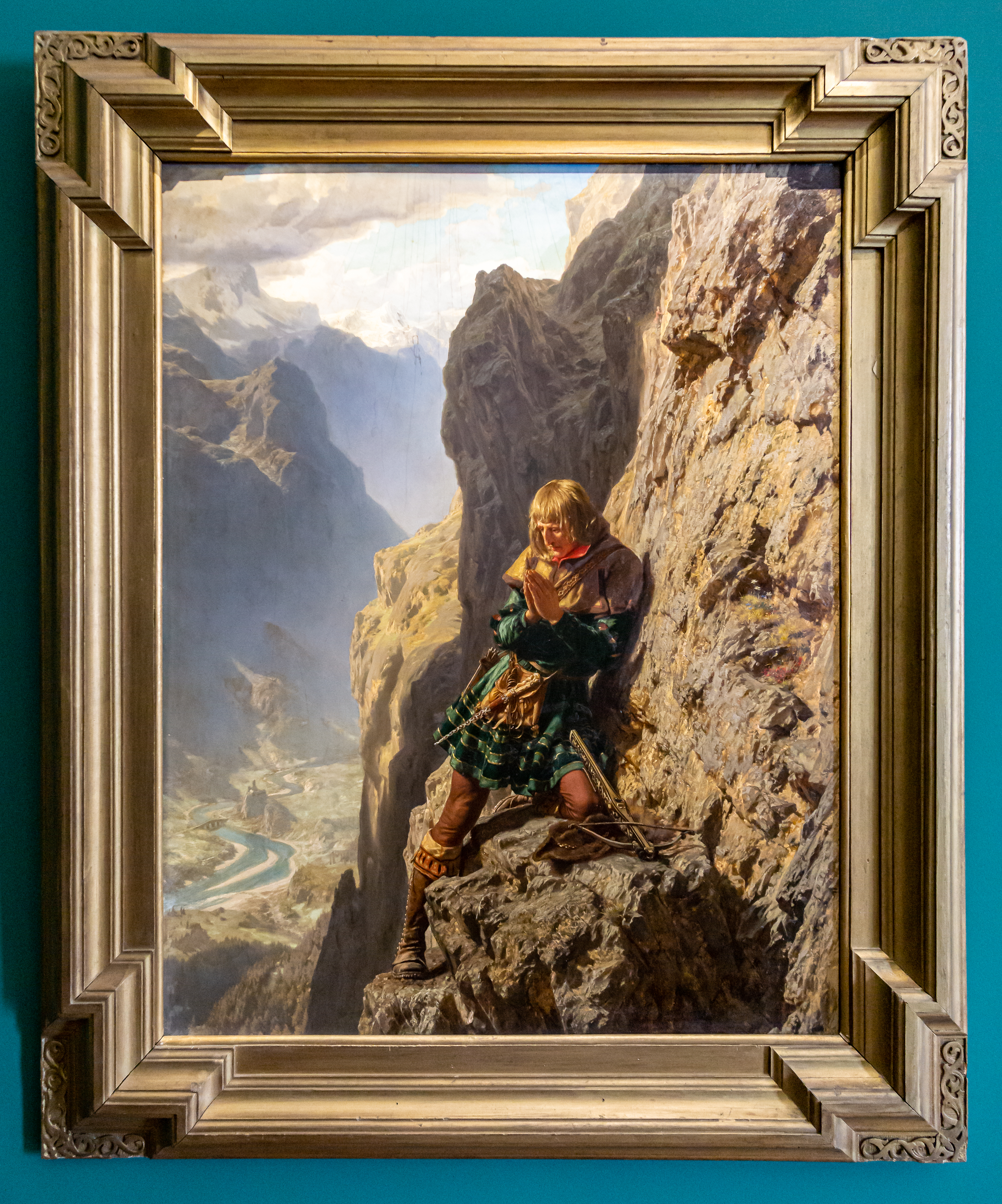 Emperor Maximilian I. on the Martin's Wall